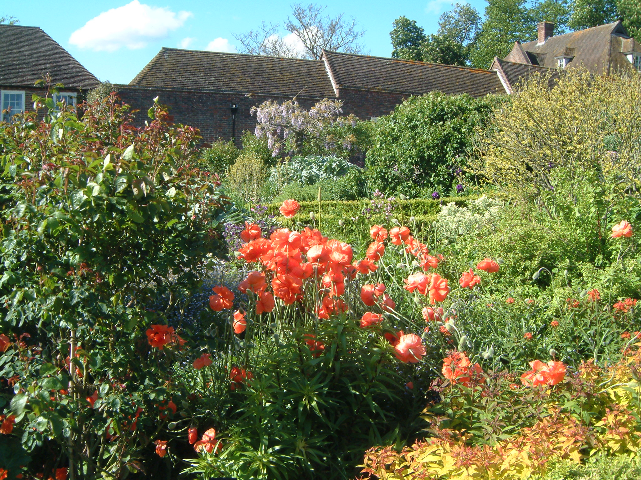 Leeds Castle - Poppies in the garden